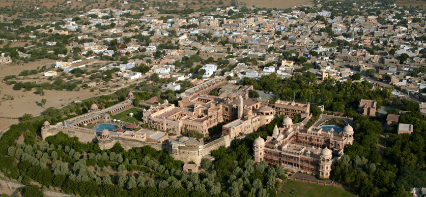 "You are not prepared for the beauty, the grandeur, the layout or the magnificence of this castle even as you approach it through sand dunes and narrow countryside roads. It suddenly hits you on a blind corner. Come and savour the experience..." Perched on the edge of the Great Thar Desert in the heart of rural India lies this unique 16th century fort that offers experience after exhilarating experience. Hundreds of years of history unfold as you glance at its battle-scarred walls and stroll down its ramparts. As you sip tea on the terraces you realize the beauty of being surrounded by acres of lush green gardens. A true rarity of any desert in the world!! Peacocks, parrots, pigeons and as many as forty-six varieties of birds greet you to add to the charm and splendour of this ancient fort. Today, Khimsar Fort has been awarded the 'NATIONAL GRAND HERITAGE AWARD FOR EXCELLENCE' (this being the highest recognition conferred upon any heritage property by the Department of Tourism, Government of India). You are not prepared for the beauty, the grandeur, the layout or the magnificence of this castle even as you approach it through sand dunes and narrow countryside roads. It suddenly hits you on a blind corner. Come and savour the experience� Gajendra Singh Khimsar